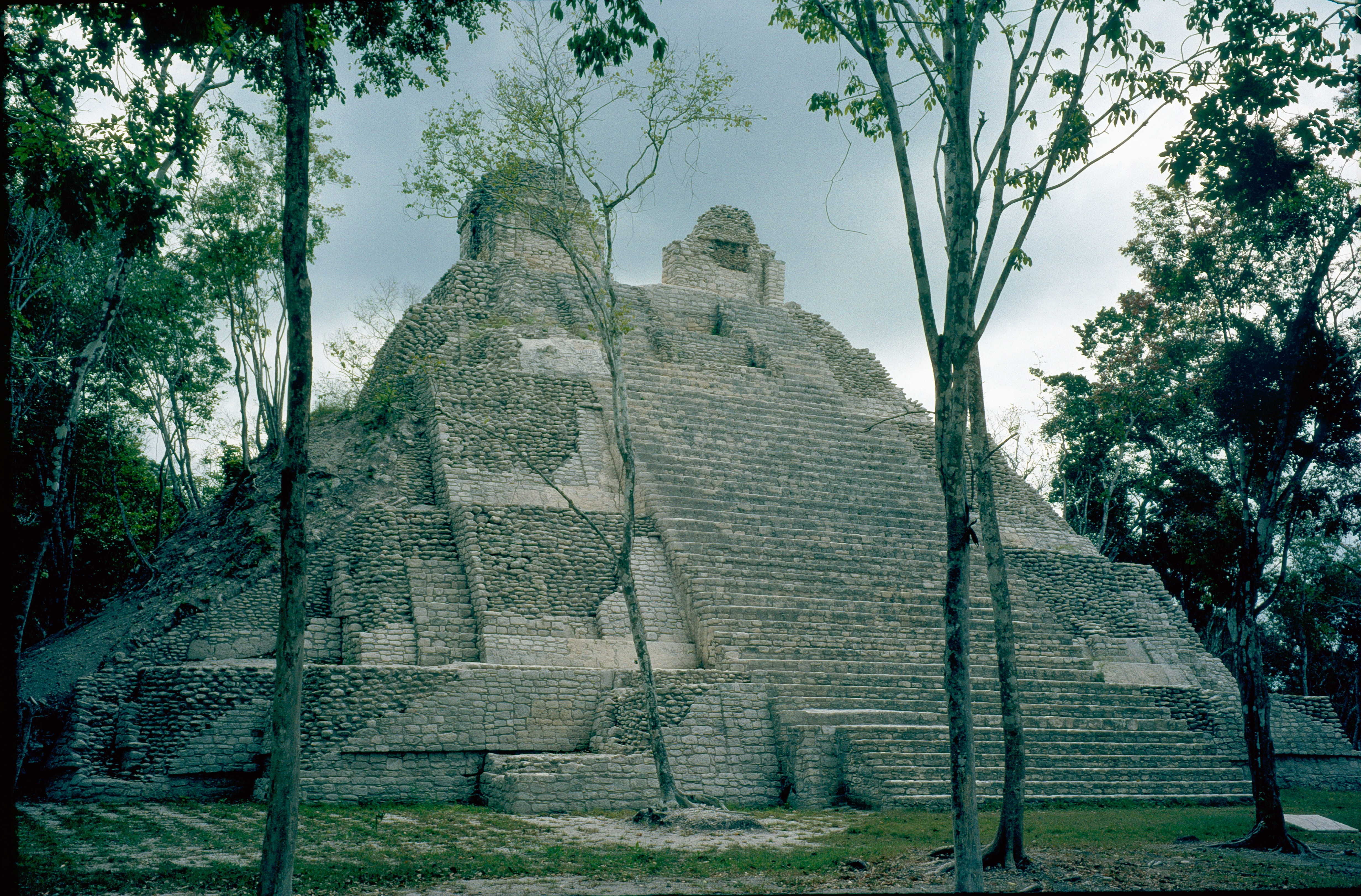 Dzibanche, Quintana Roo, Mexico: building of the owls